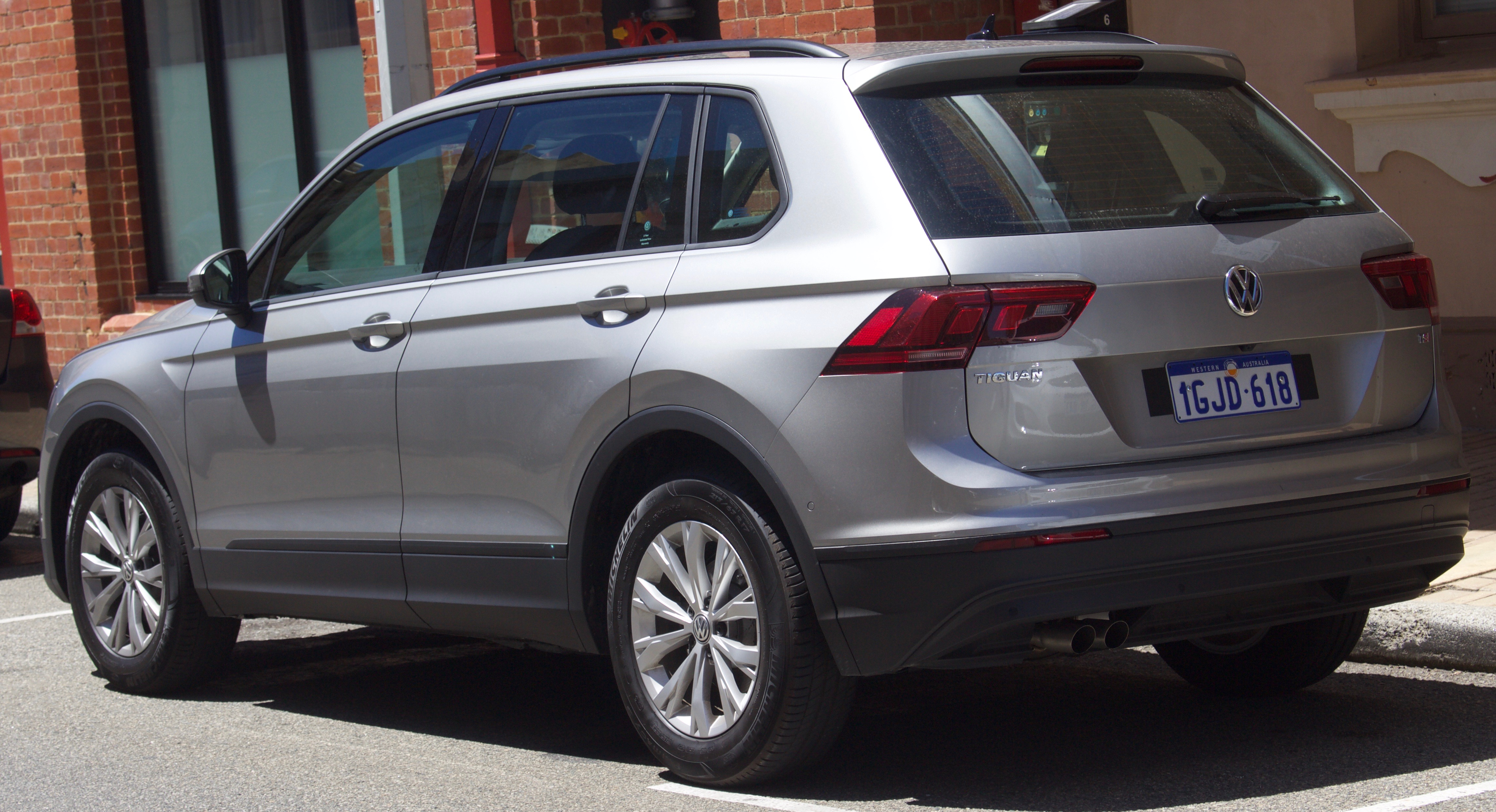 2017 Volkswagen Tiguan 110TSI Trendline 2WD wagon. Photographed in Fremantle, Western Australia, Australia.